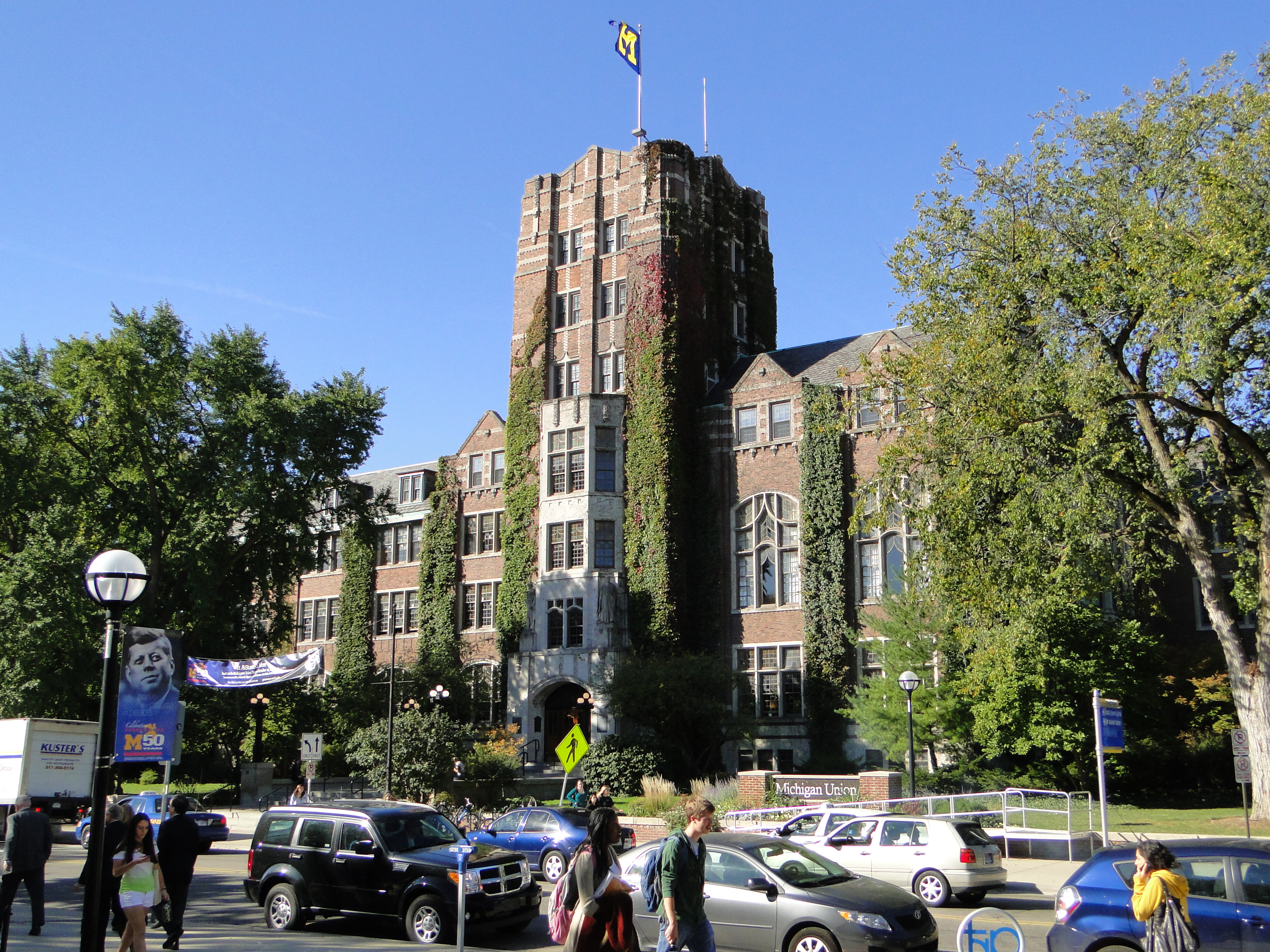 Michigan Union, Ann Arbor, Michigan